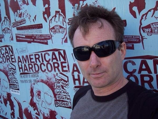 Director Paul Rachman before a screening of American Hardcore (2006)